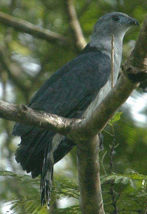 Gray-headed Kite